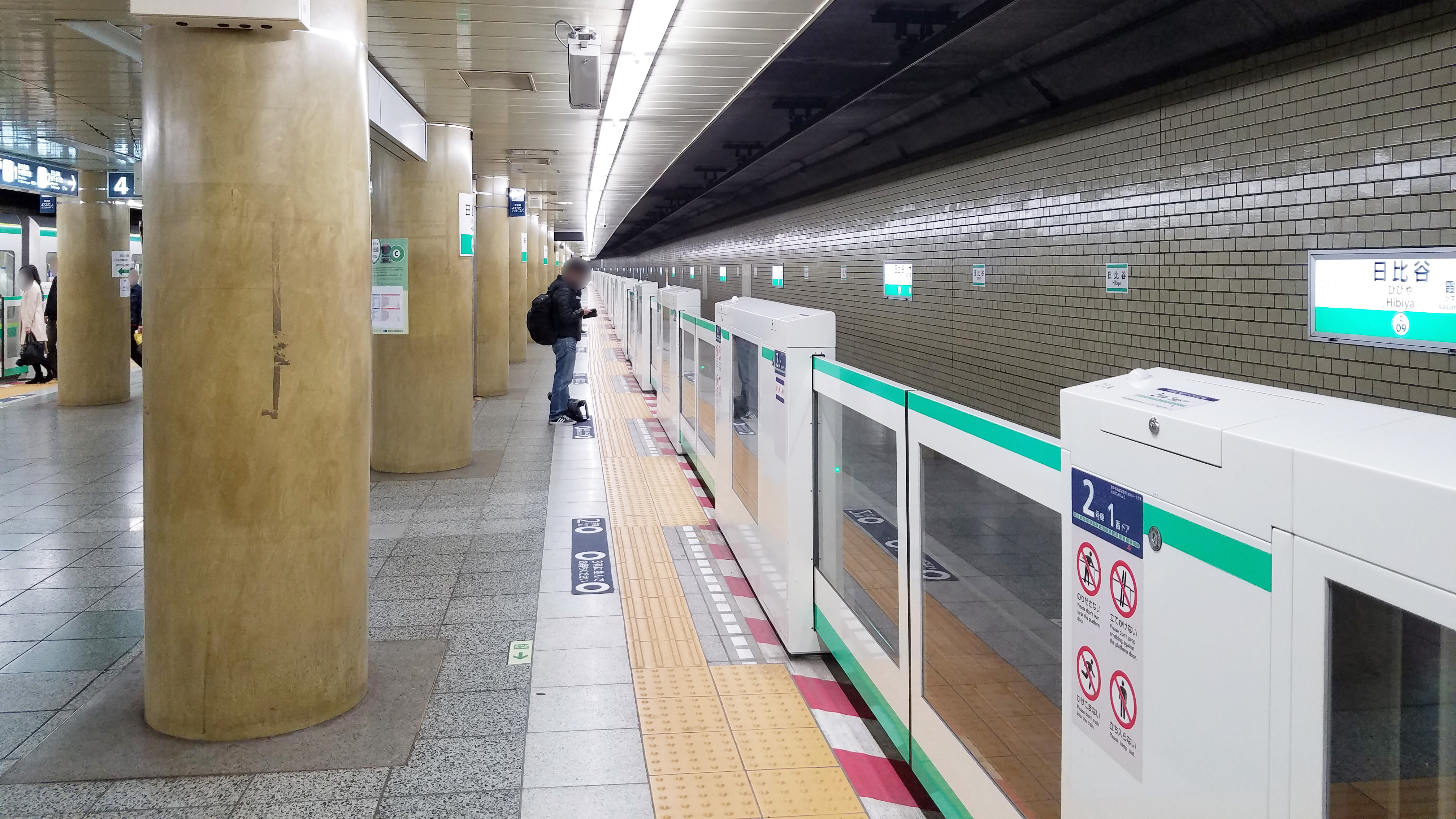 The platforms at Hibiya Station on the Tokyo Metro Chiyoda Line in Chiyoda city, Tokyo, Japan